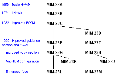 Diagram of the MIM-23 HAWK missile series family tree.